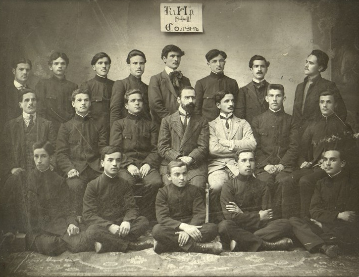 Bulgarian Men's High School of Thessaloniki